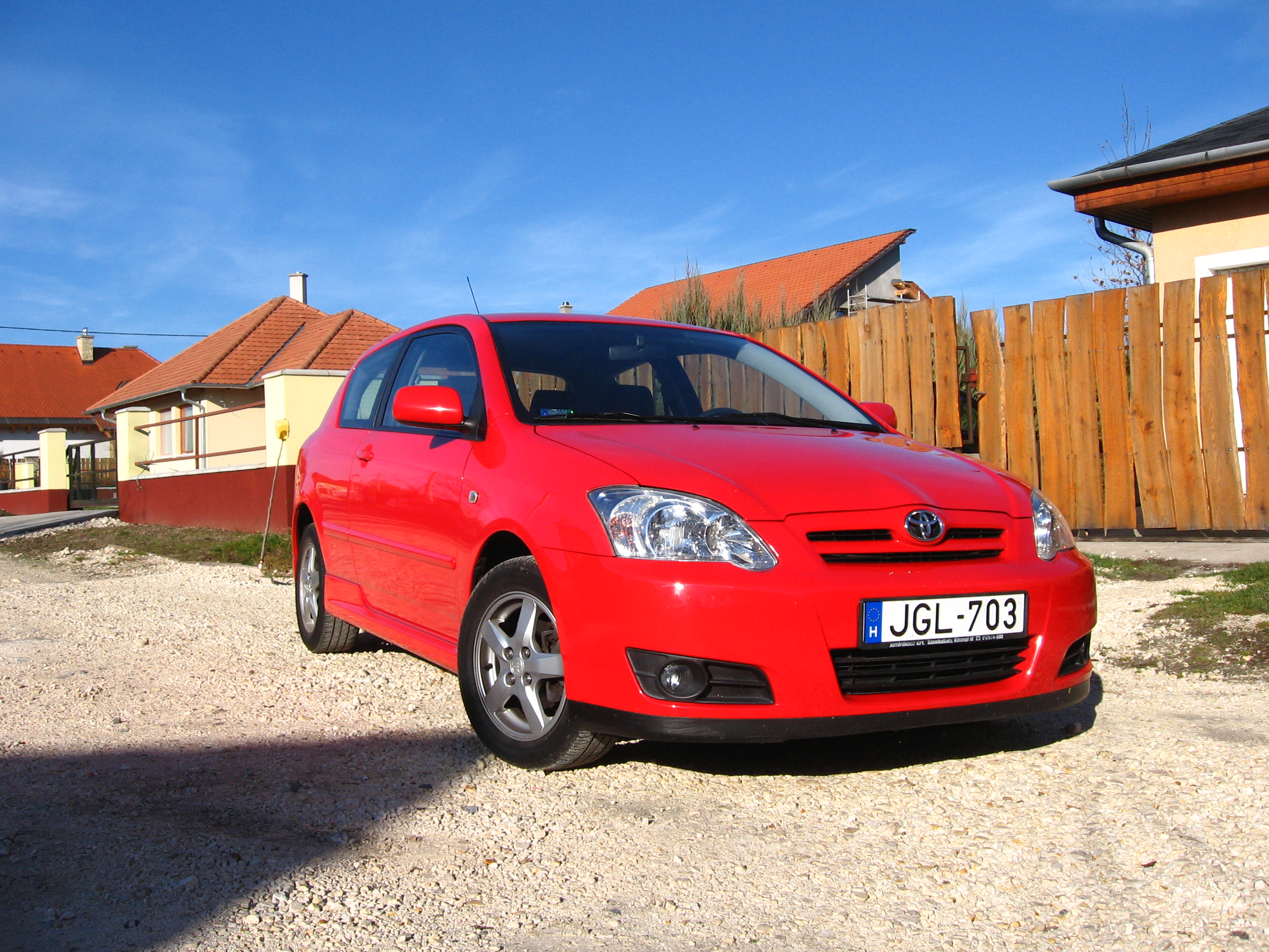 Toyota Corolla E120 Hatchback Sport 1.4 VVT-i Year:2004 red right